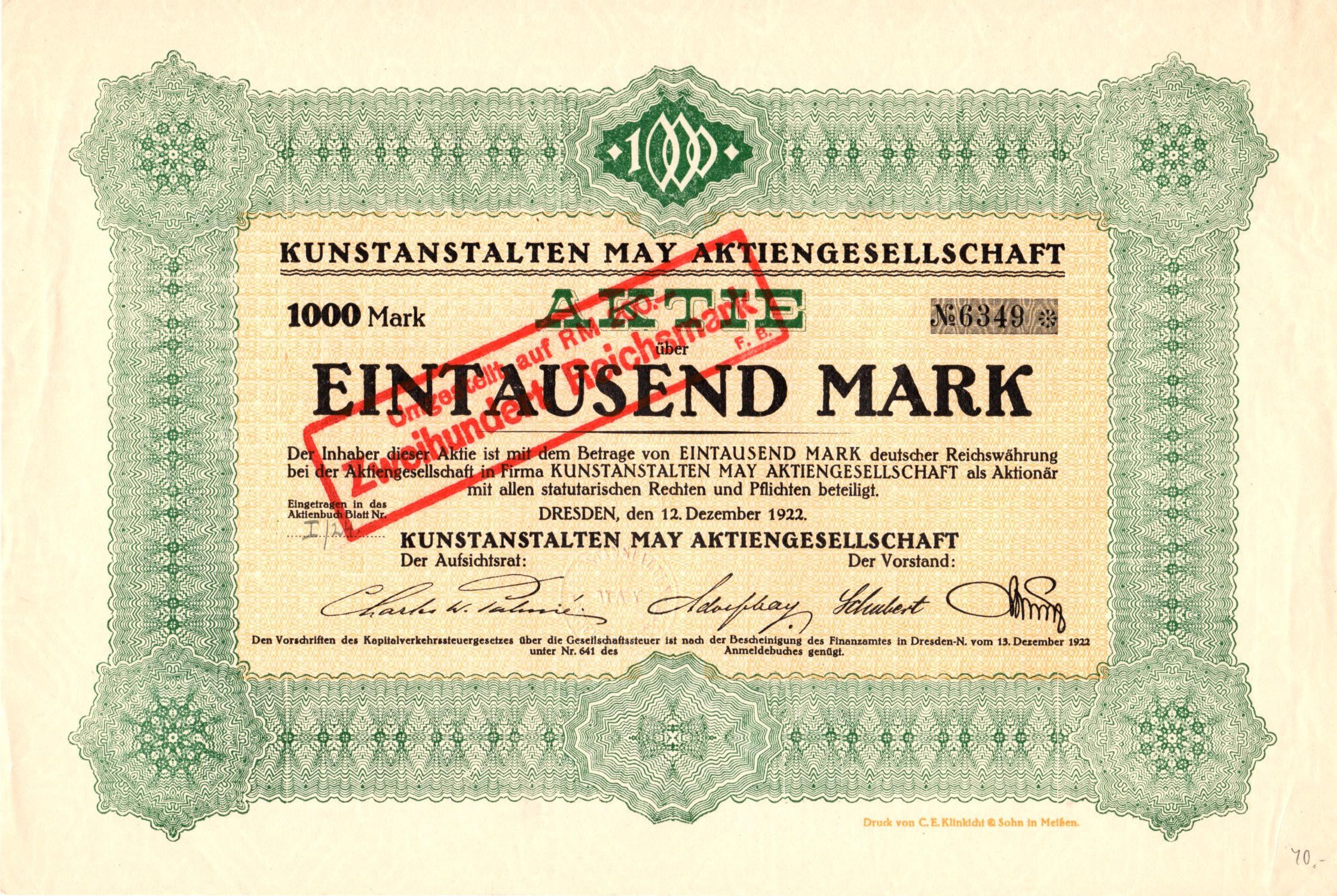 Share of the Kunstanstalten May AG, issued 12. December 1922